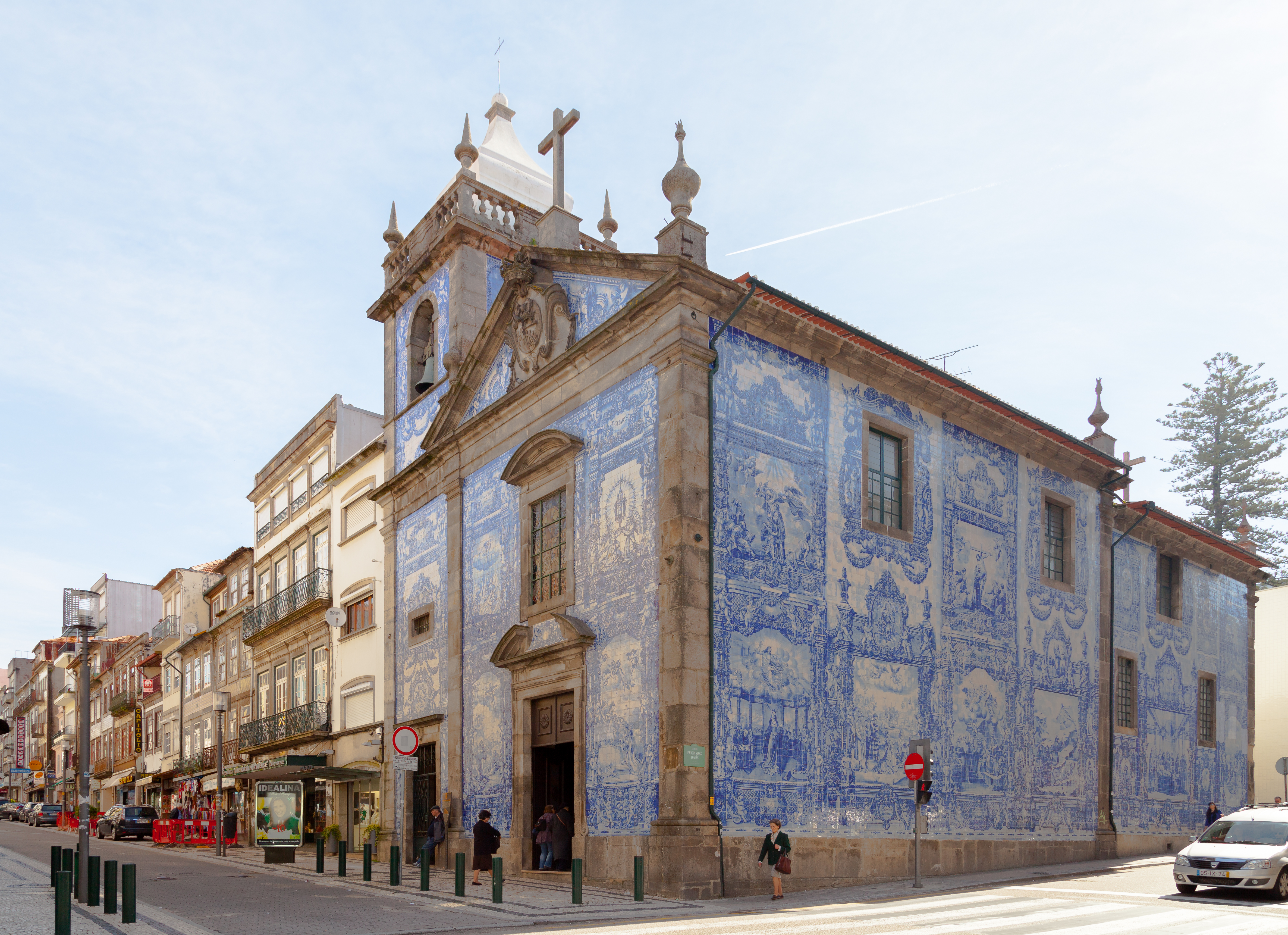 Chapel of the Souls, Porto, Portugal